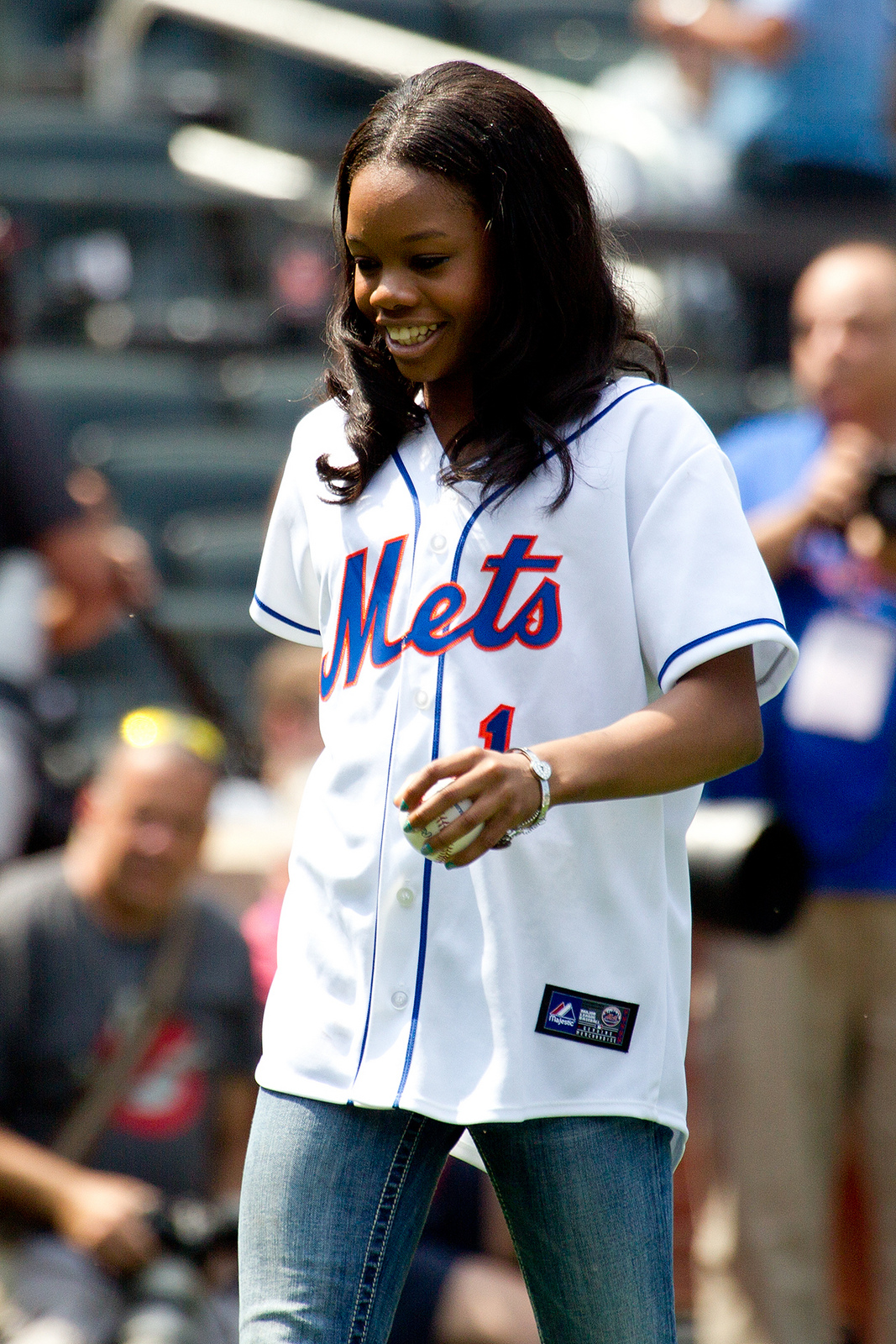 Gabby Douglas at the Mets-Rockies baseball game on August 24th, 2012, invited to throw the first pitch of the game.